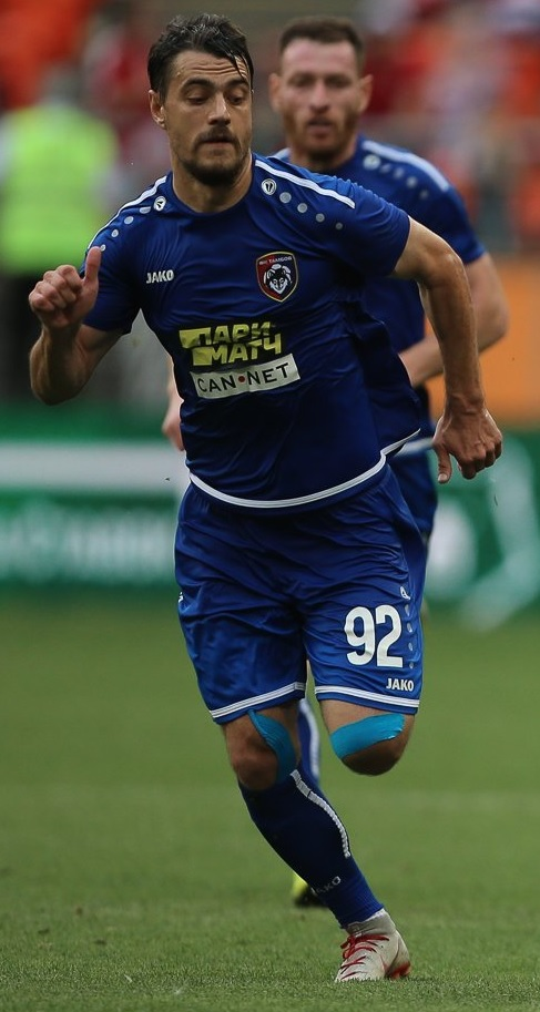 Valeriu Ciupercă with FC Tambov in a game against FC Spartak Moscow.